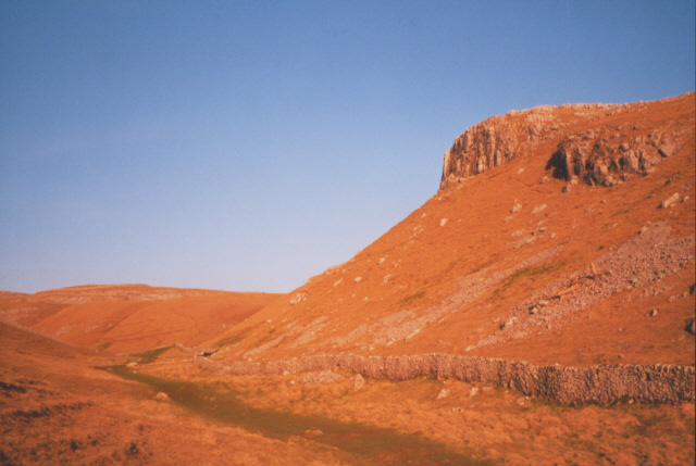 Conistone Dib, a dry valley above Conistone in North Yorkshire